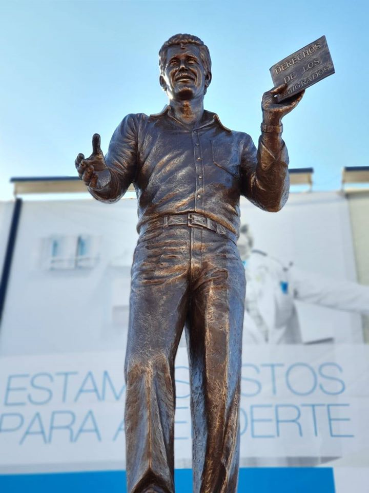 Monumento al Emigrado en la Figura del luchador social Manuel Campa García